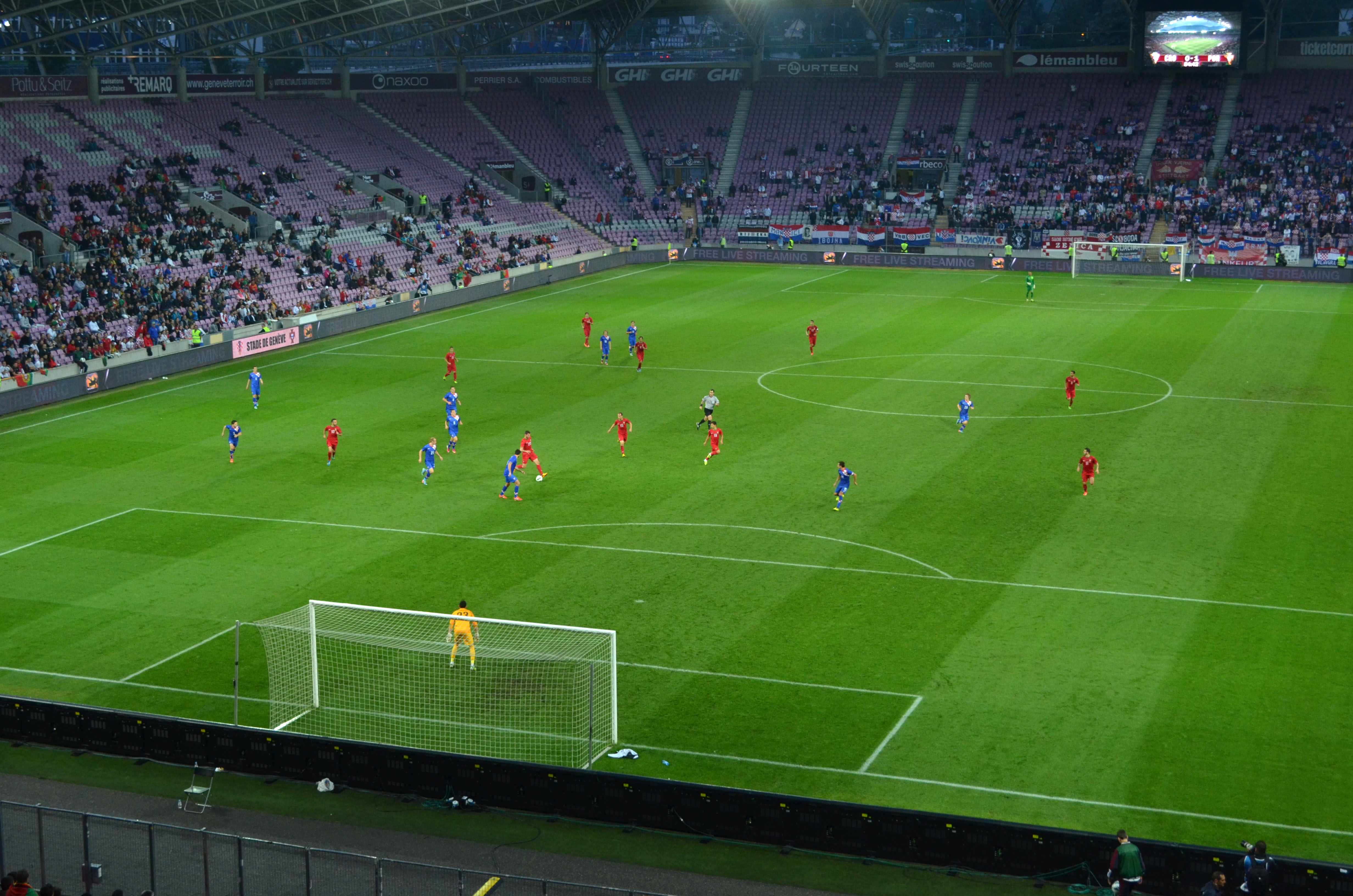 Portugal (red) vs Croatia (blue) at the Stade de Genève, on June 10, 2013